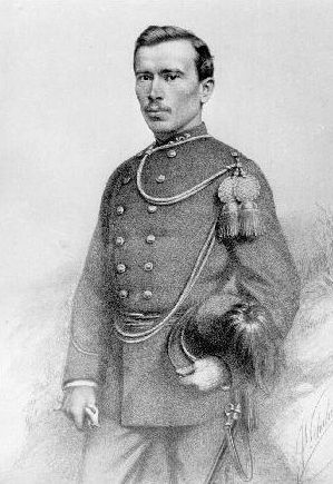 Photograph of Luxembourger Nicolas Grang (1854-1883), Lieutnant in the Belgian Army an assistant of Henry Morton Stanley in the Upper Congo.